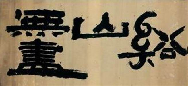 The Korean calligraphy titled "Gyesan musin" was written by Kim Jeonghee